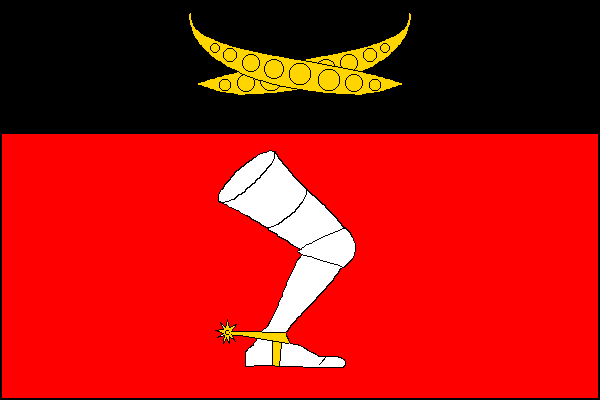 Municipal flag of Hracholusky , District Rakovník, Czech Republic